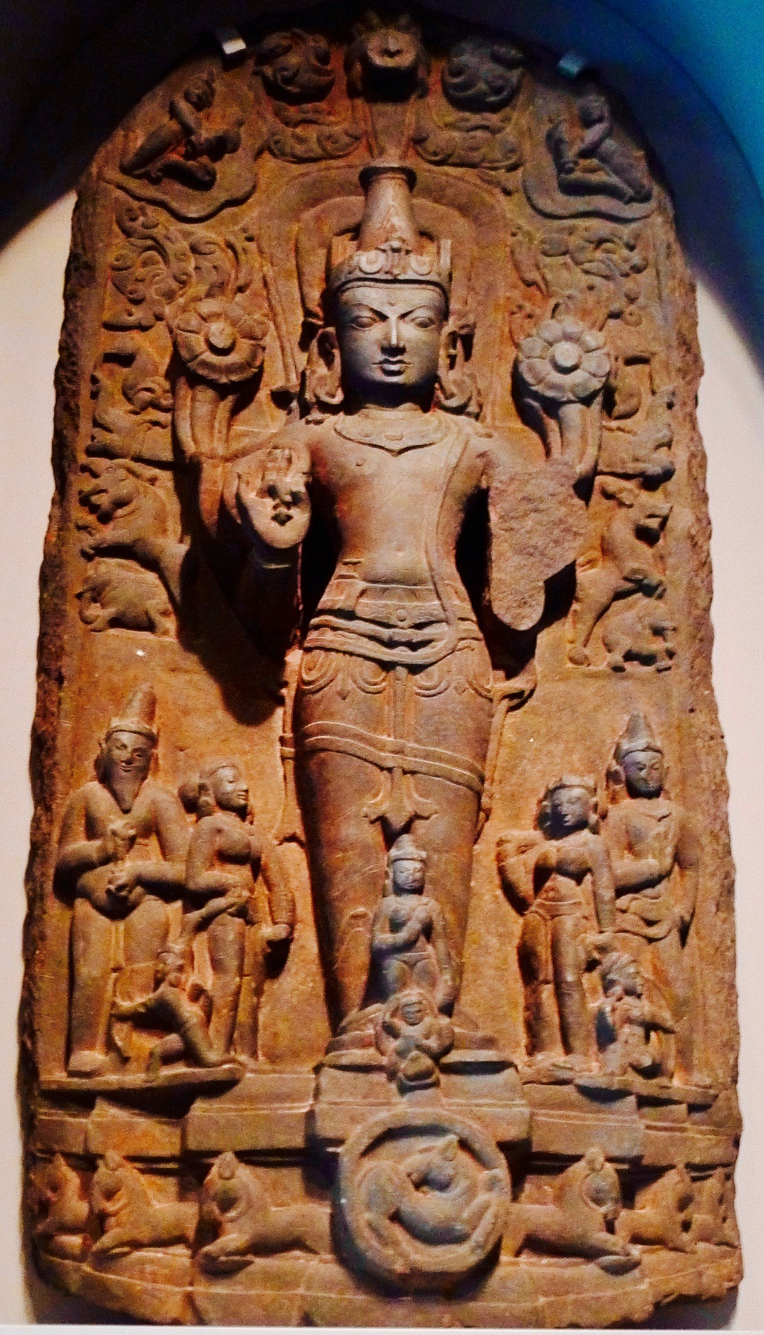 This is a derivative work of Surya, the Hindu sun god - Asian Art Museum of San Francisco.jpg available on Wikimedia Commons (author: Marshall Astor). This file is cropped.